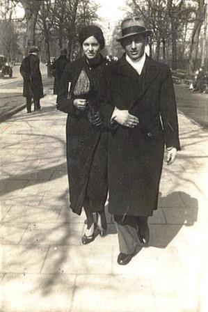 Avraham Stern and his wife Roni